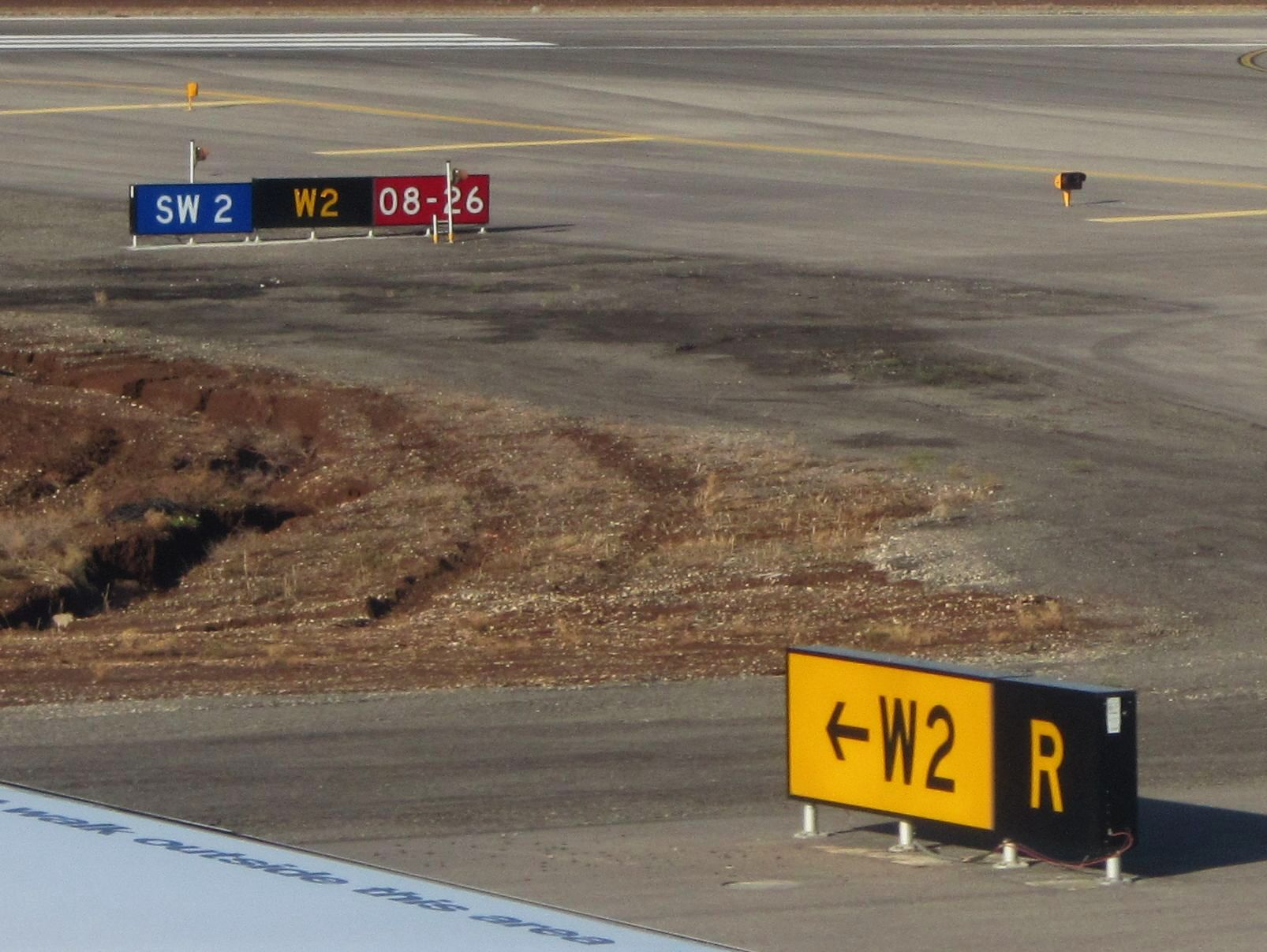 Taxiway signs at Ben Gurion International Airport, showing four sign types at once